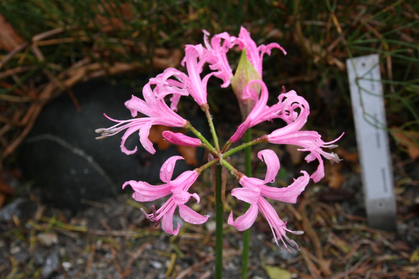 Nerine bowdenii: Flowers.